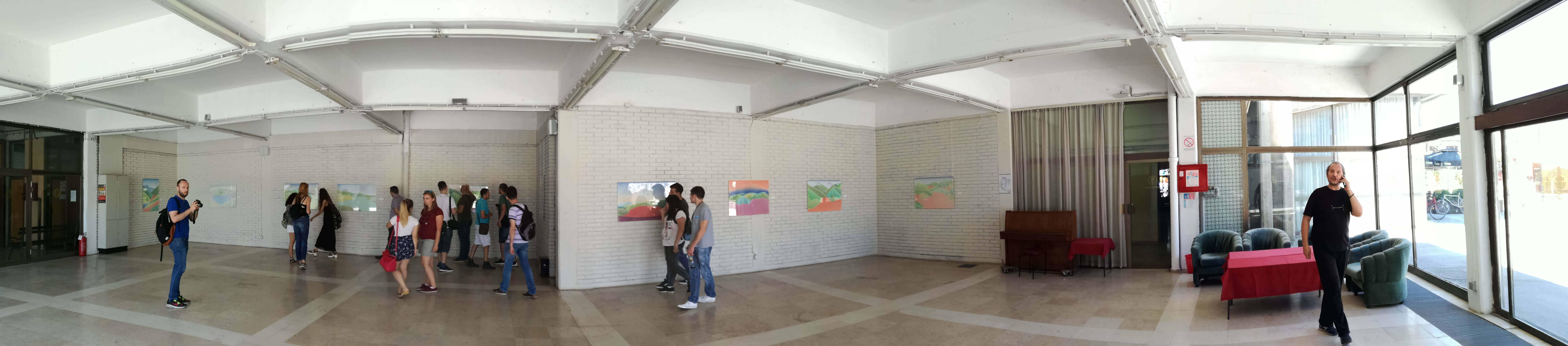 Photo Gallery located in the same building as the Theater in Trstenik.